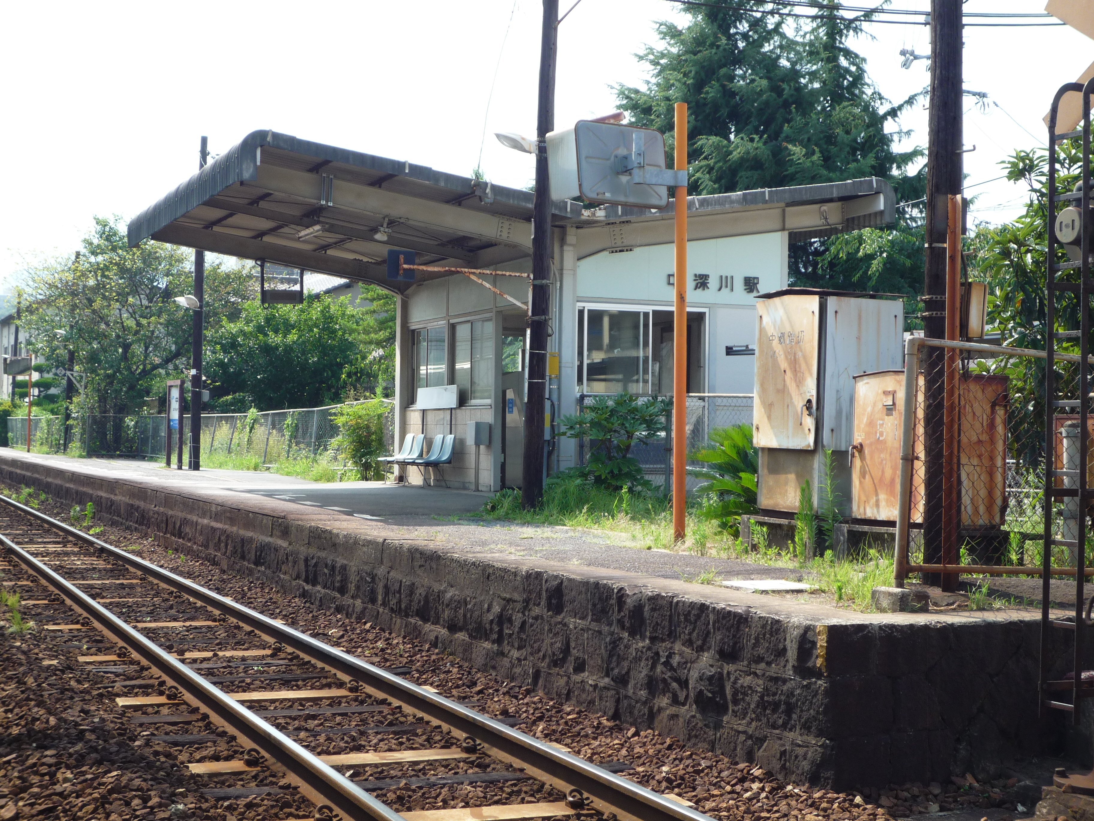 Naka-Fukawa Station